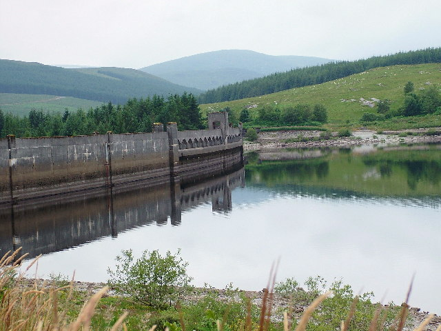 Clatteringshaws Dam. Clatteringshaws Loch. Cairnsmore of Fleet is visible in the background.